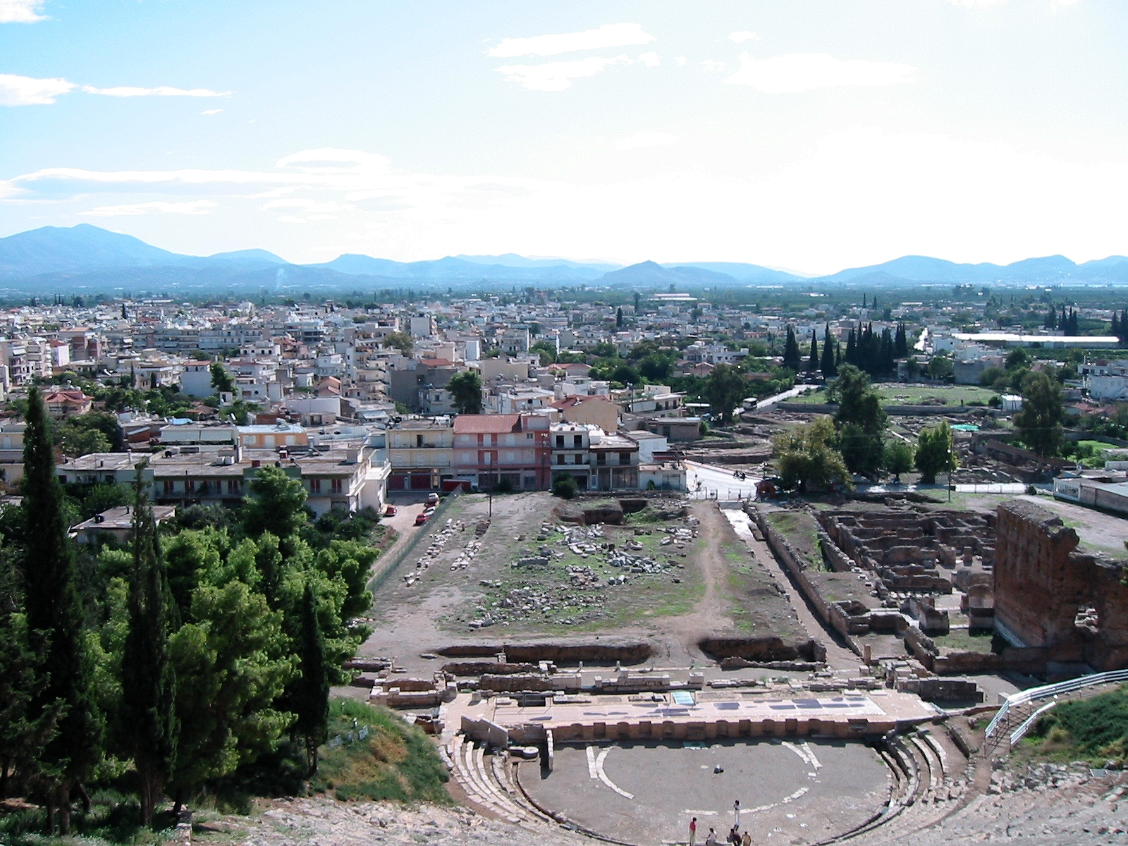 The modern city of Argos in Greece with a part of the excavation area of the classical Argos, seen from a high-up row of the ancient theatre.